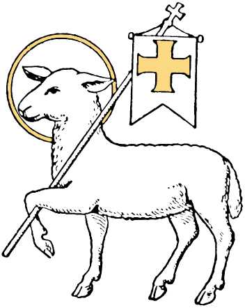 Logo for the NCTL designated Teaching School St Bonaventure's and its alliance partners